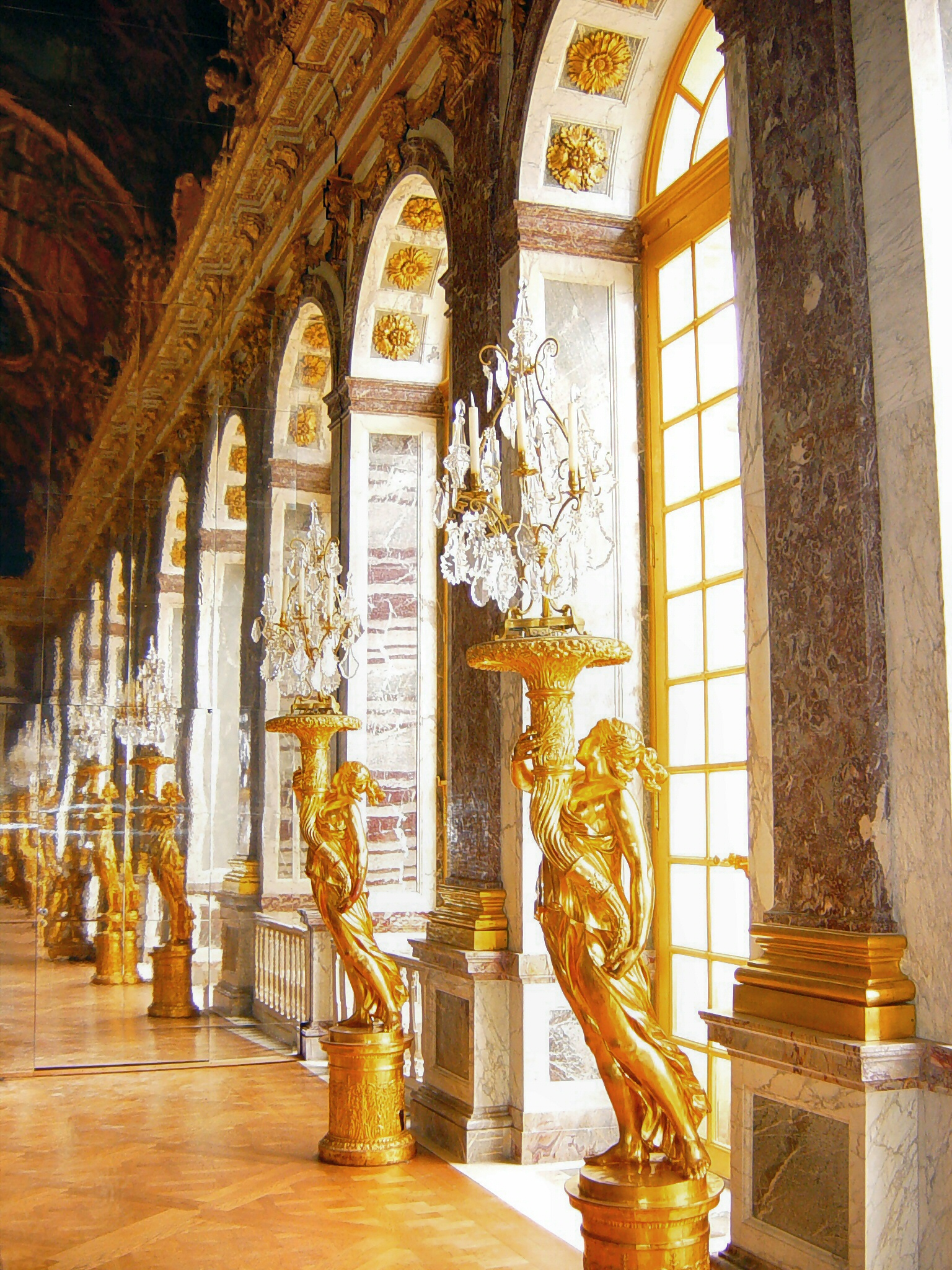 Hall Of Mirrors (Spiegelzaal), made by myself (user:edwinbin april 2006.